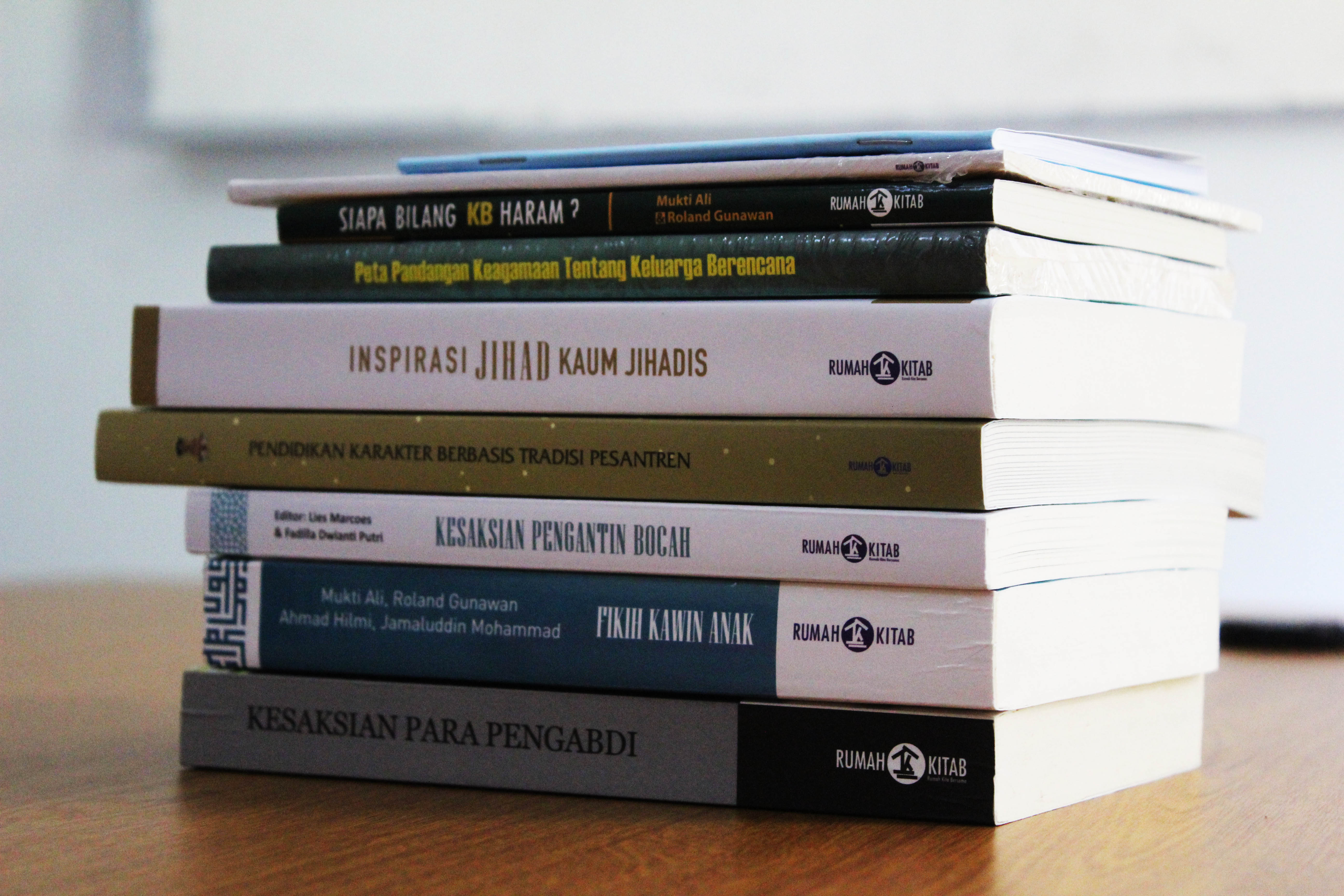 Books published by Yayasan Rumah Kita Bersama